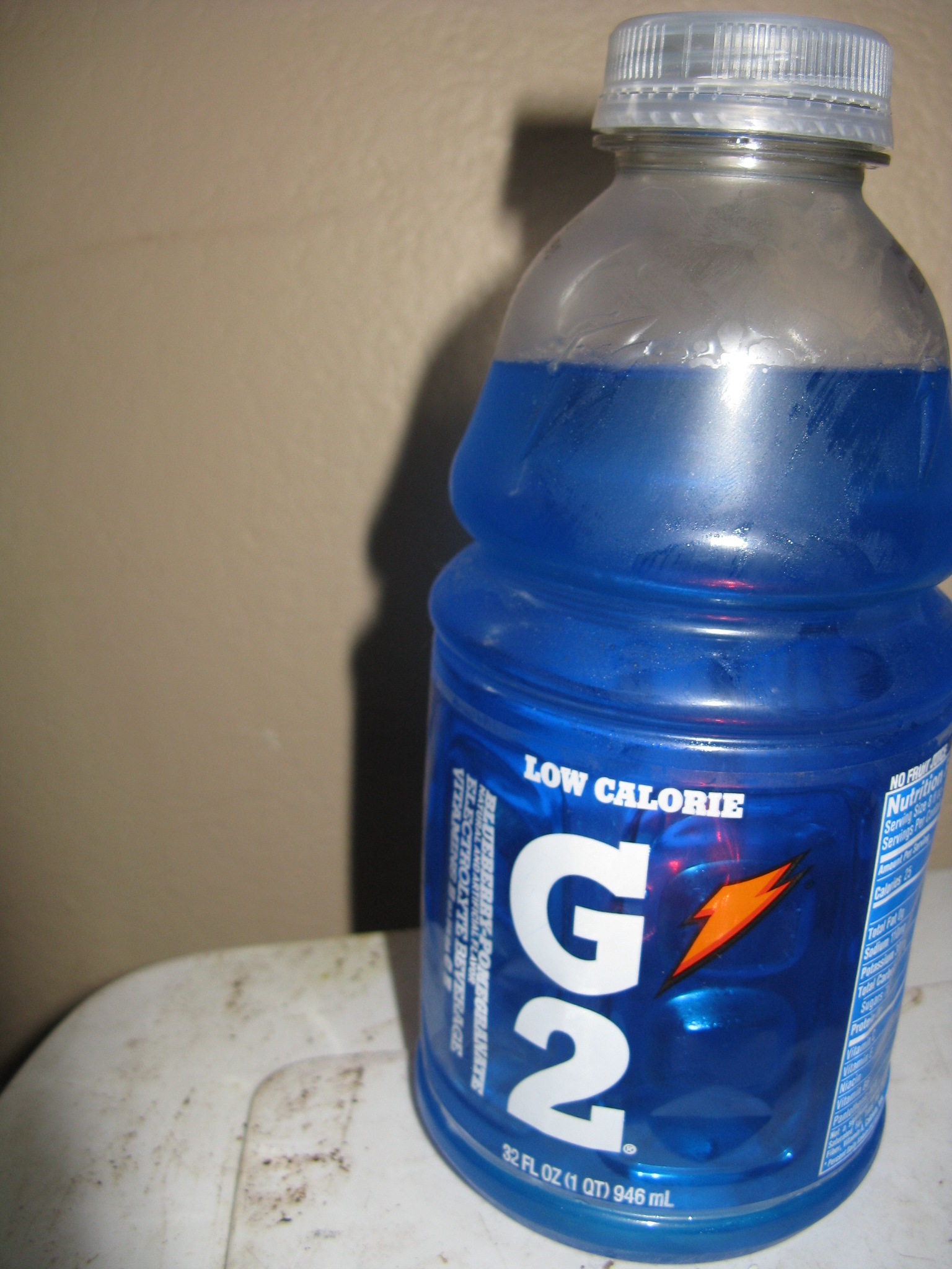 A Gatorade G2 Bottle